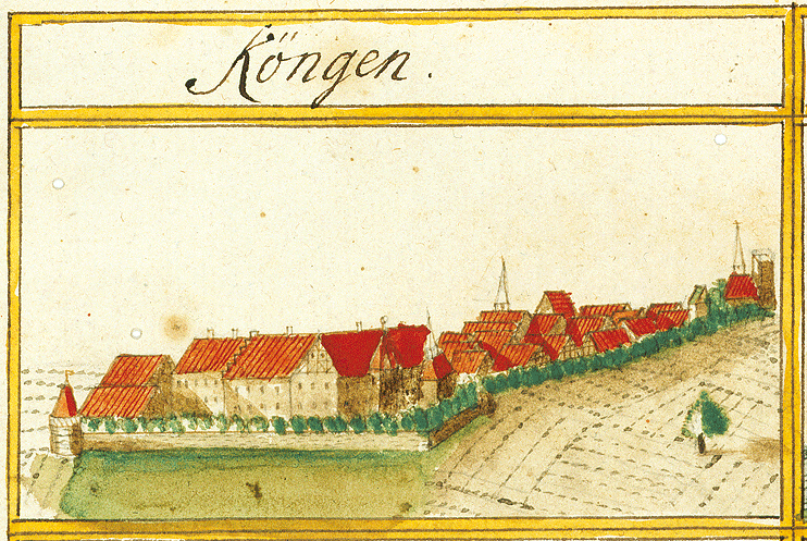 View of Köngen from the forest register books created by Andreas Kieser